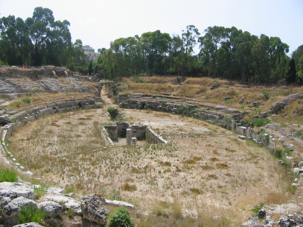 The Ancient Roman amphitheatre at Syracuse, Sicily, Italy.